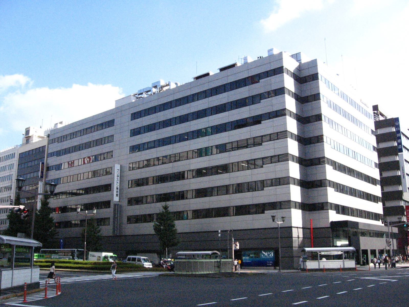 Bridgestone headquatres from Nihonbashi, Tokyo. Bridgestone Museum of Art Native nameブリヂストン美術館Parent institutionIshibashi FoundationLocationTokyoCoordinates35° 40′ 44″ N, 139° 46′ 19″ E Established1952Website control VIAF: 141503846 ISNI: 0000 0001 2171 4078 SUDOC: 027590143 BNF: 11959749b